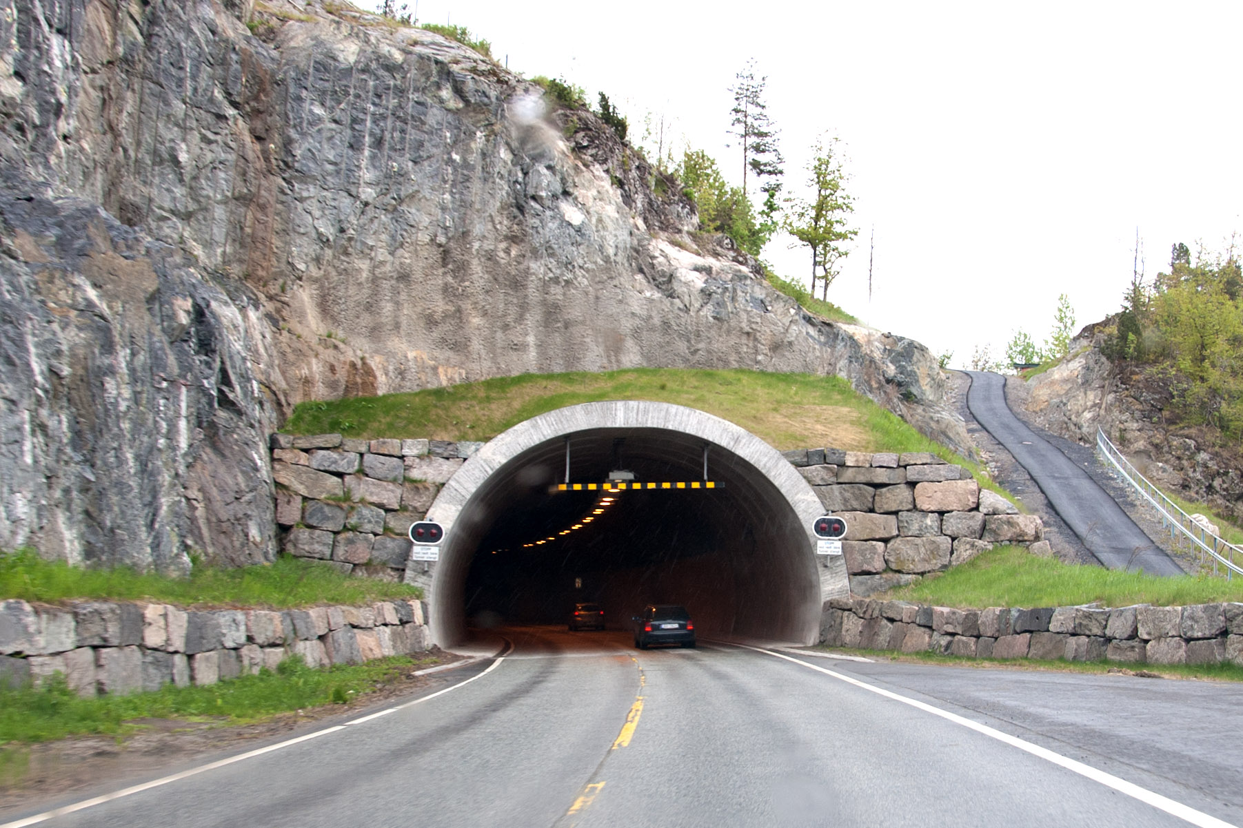 Vadfosstunnelen, a road tunnel on county road 38, Telemark, Norway.